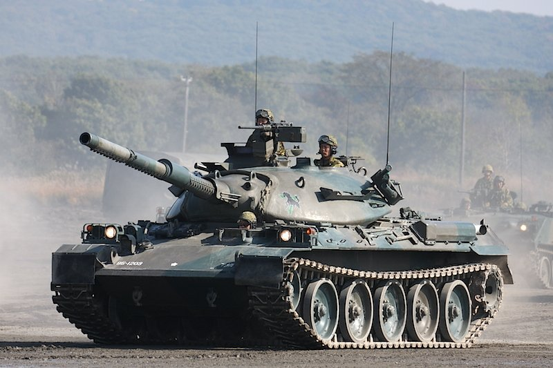 Type74